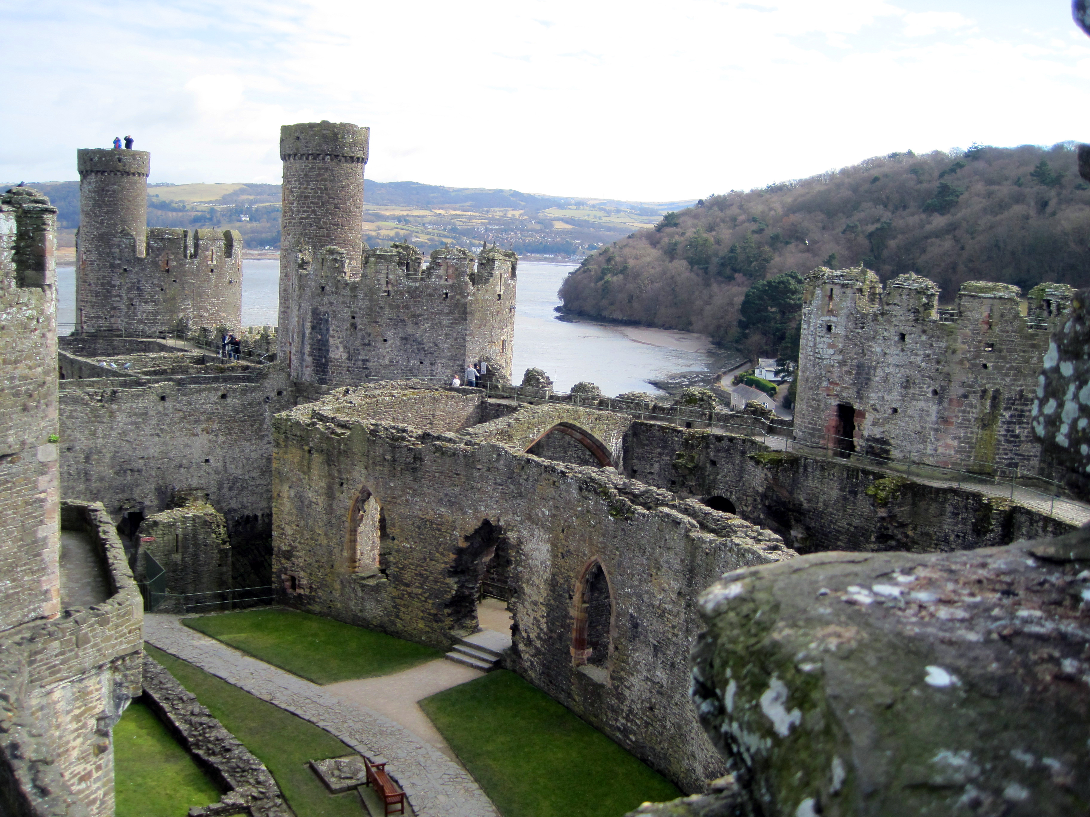 Conwy Castle